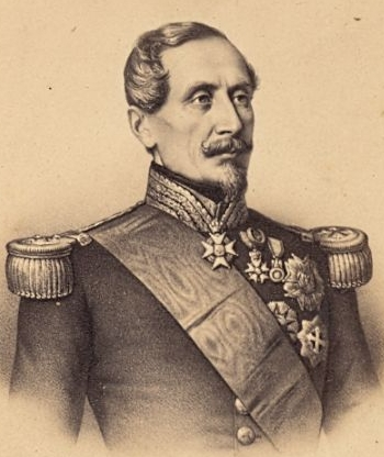 Marshal of France Armand Jacques Leroy de Saint-Arnaud (1796-1854). 19tyh century photograph.